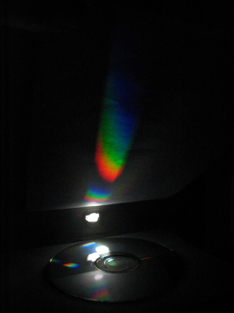 Home made diffraction pattern made with: CD, papers and sunlight. Example of a everyday diffraction grating.